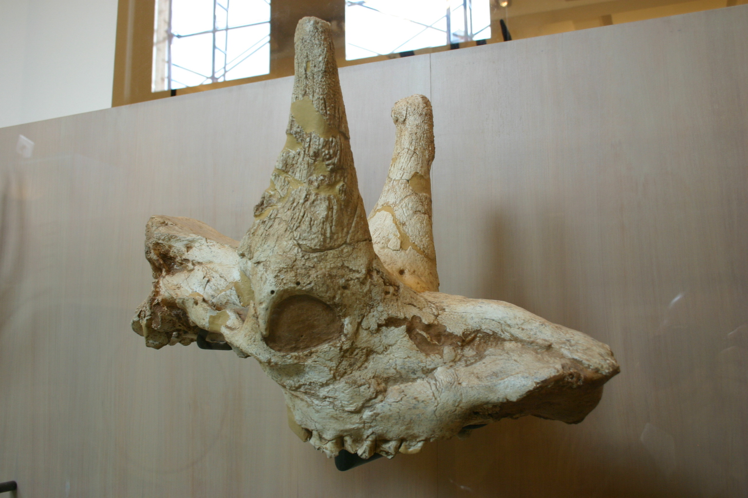 Extinct Giraffe Honanotherium schlosseri ("beast from the Honan province")